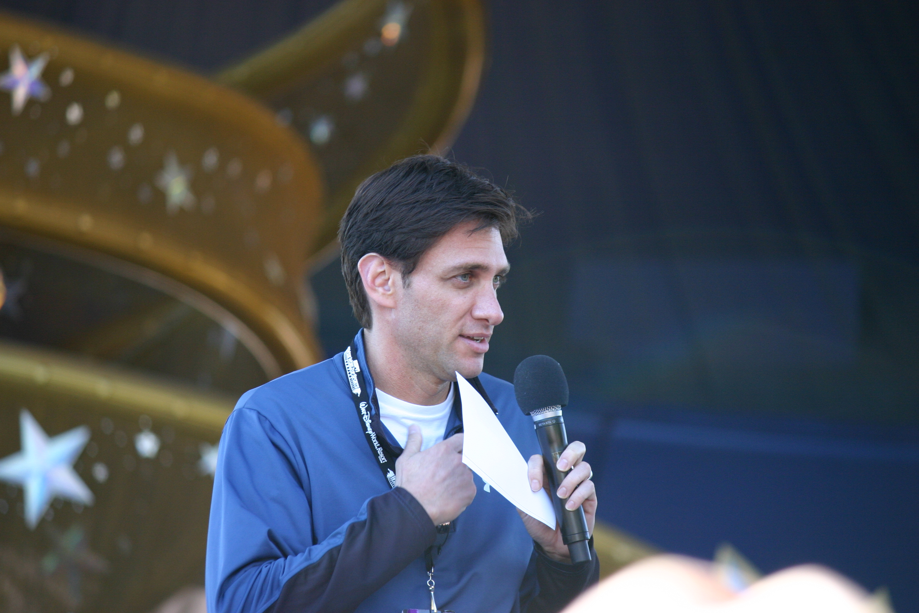 Mike Greenberg of ESPN Radio's Mike and Mike at the Sorcerer Hat Stage during ESPN The Weekend, February 26, 2010